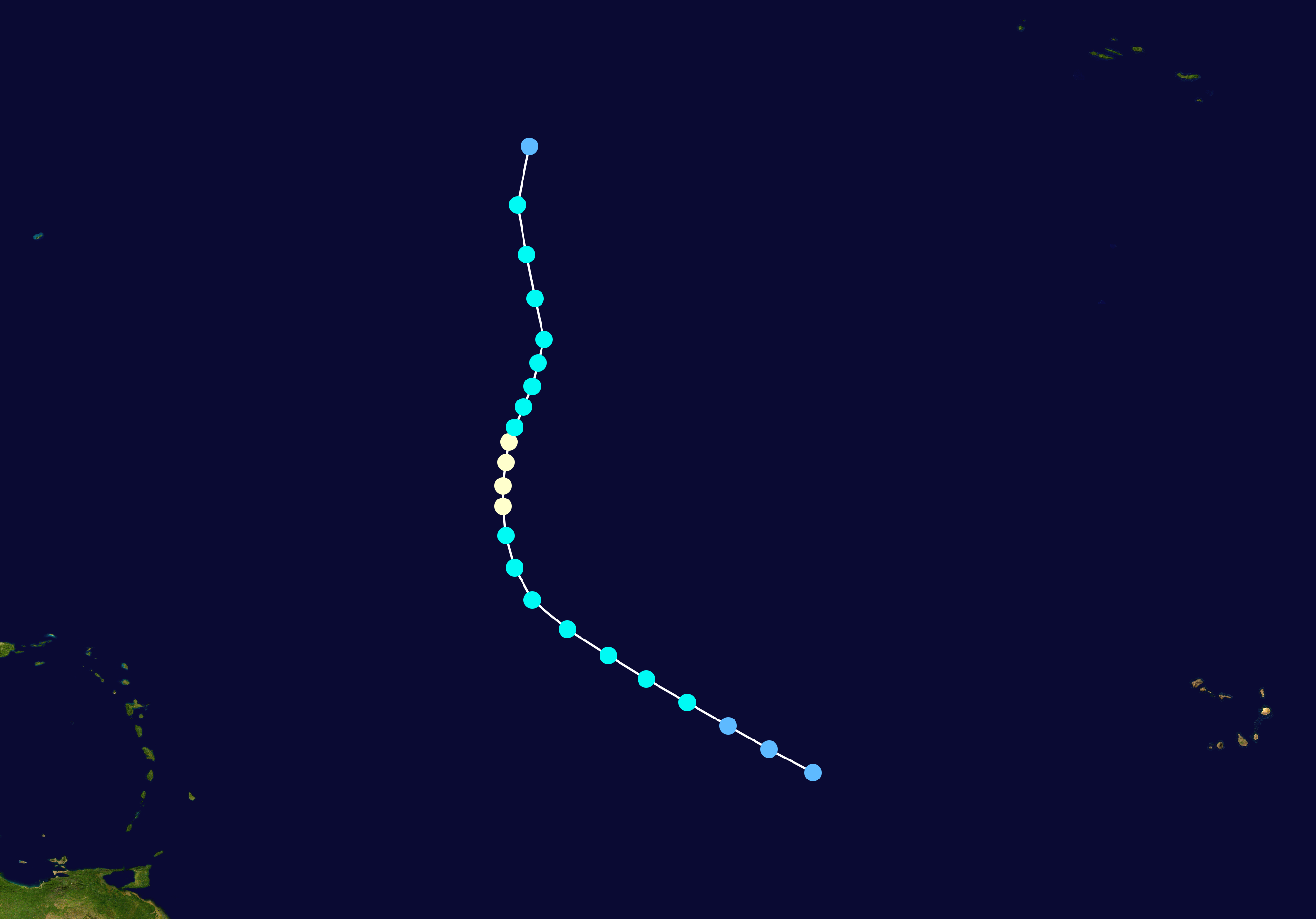 Track map of Hurricane Debra of the 1963 Atlantic hurricane season. The points show the location of the storm at 6-hour intervals. The colour represents the storm's maximum sustained wind speeds as classified in the Saffir–Simpson scale (see below), and the shape of the data points represent the nature of the storm, according to the legend below. Saffir–Simpson scale Tropical depression≤38 mph≤62 km/h Category 3111–129 mph178–208 km/h Tropical storm39–73 mph63–118 km/h Category 4130–156 mph209–251 km/h Category 174–95 mph119–153 km/h Category 5≥157 mph≥252 km/h Category 296–110 mph154–177 km/h Unknown Storm type Tropical cyclone Subtropical cyclone Extratropical cyclone / Remnant low / Tropical disturbance / Monsoon depression